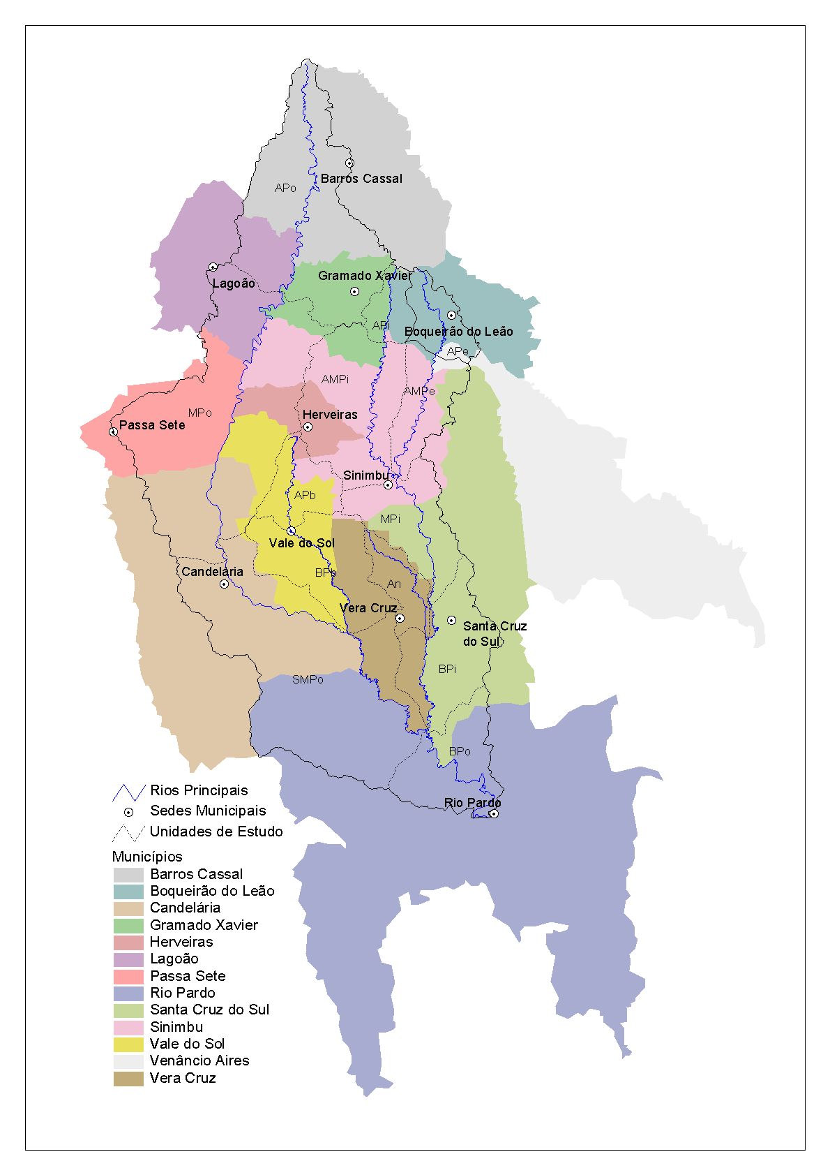 Municipalities and units of study of the water basin of Rio Pardo